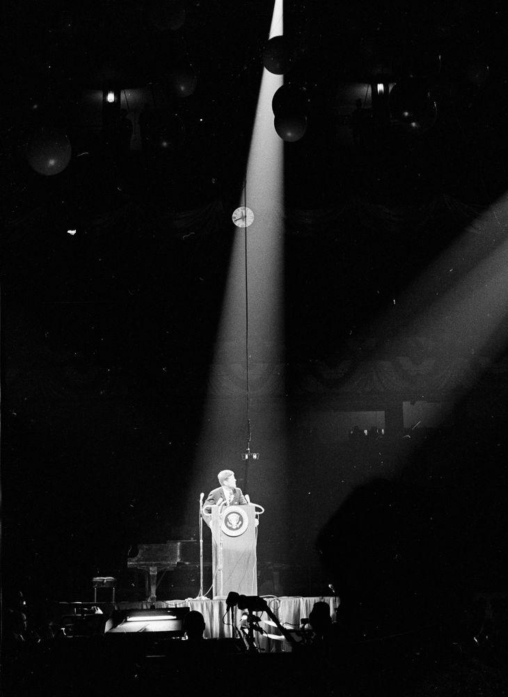 ST-212-4-62 19 May 1962Trip to New York City: Madison Square Garden, Birthday Salute to President Kennedy, 8:50PM[White spotting throughout negative.]Please credit "Cecil Stoughton. White House Photographs. John F. Kennedy Presidential Library and Museum, Boston"